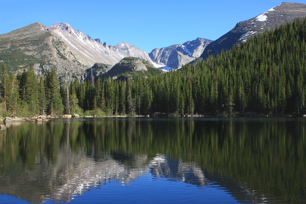 Rocky Mountain National Park, Colorado, USA, Bear Lake